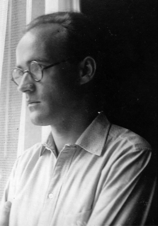 Snapshot by Magdalena Thullen who will become his wife in 1934.